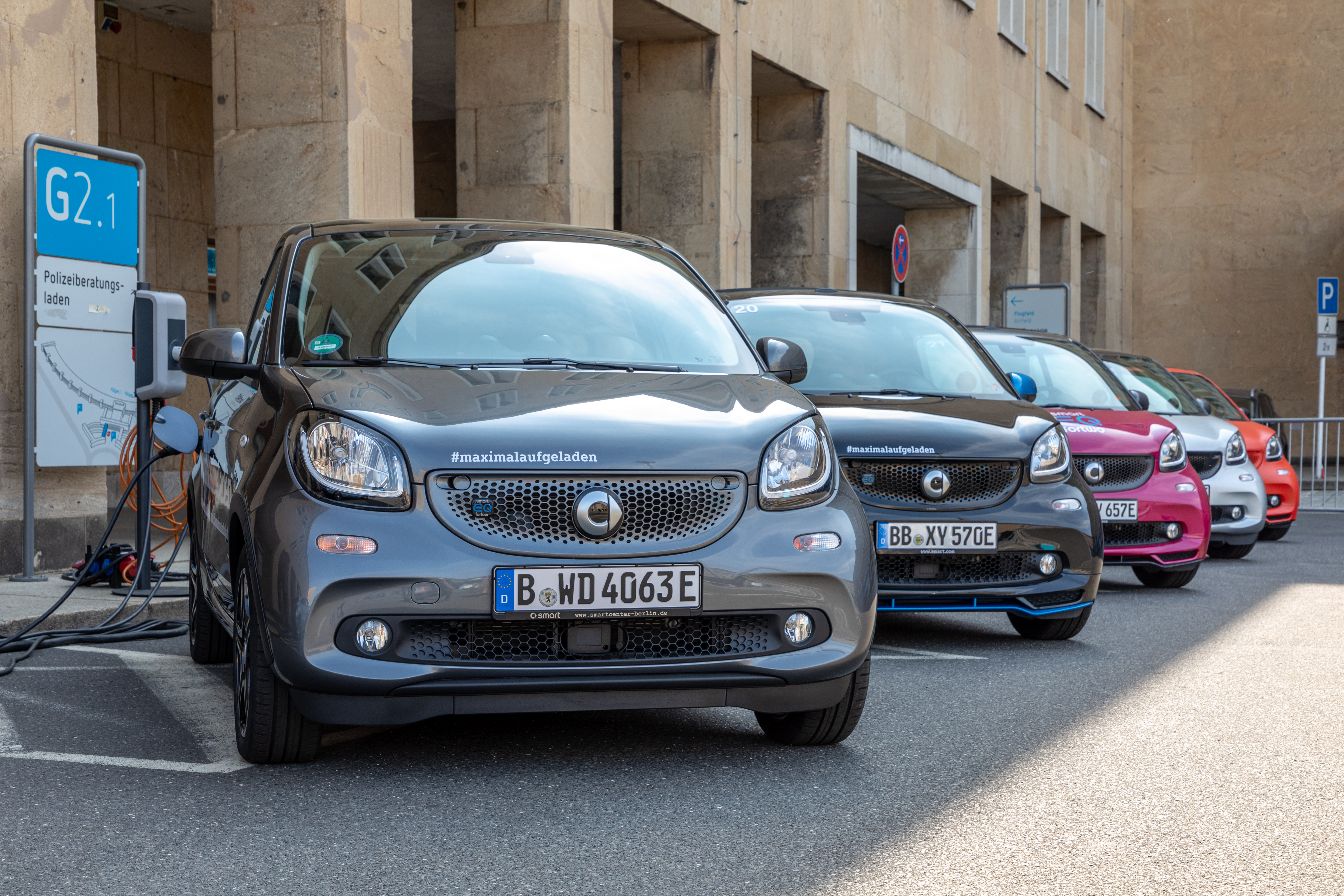 Smart EQ Forfour in front of the entrance building of the Tempelhof airport in Berlin, Germany